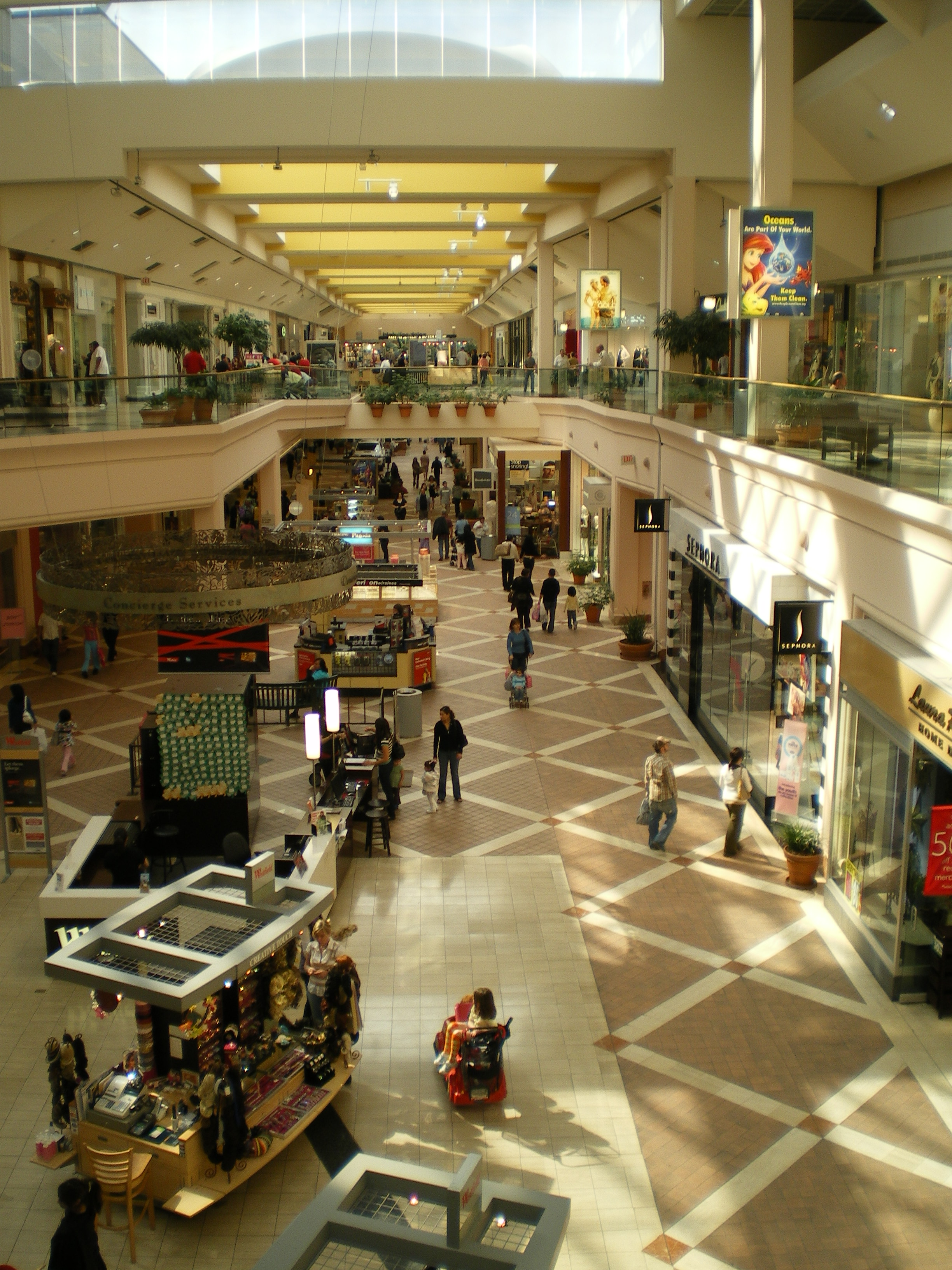 Westfield Fashion Square Mall Sherman Oaks, California